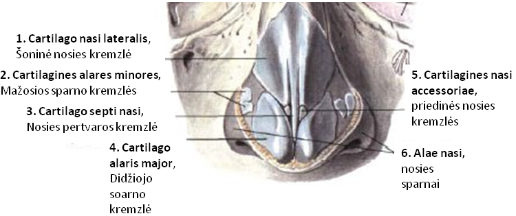 Cartilages of nose